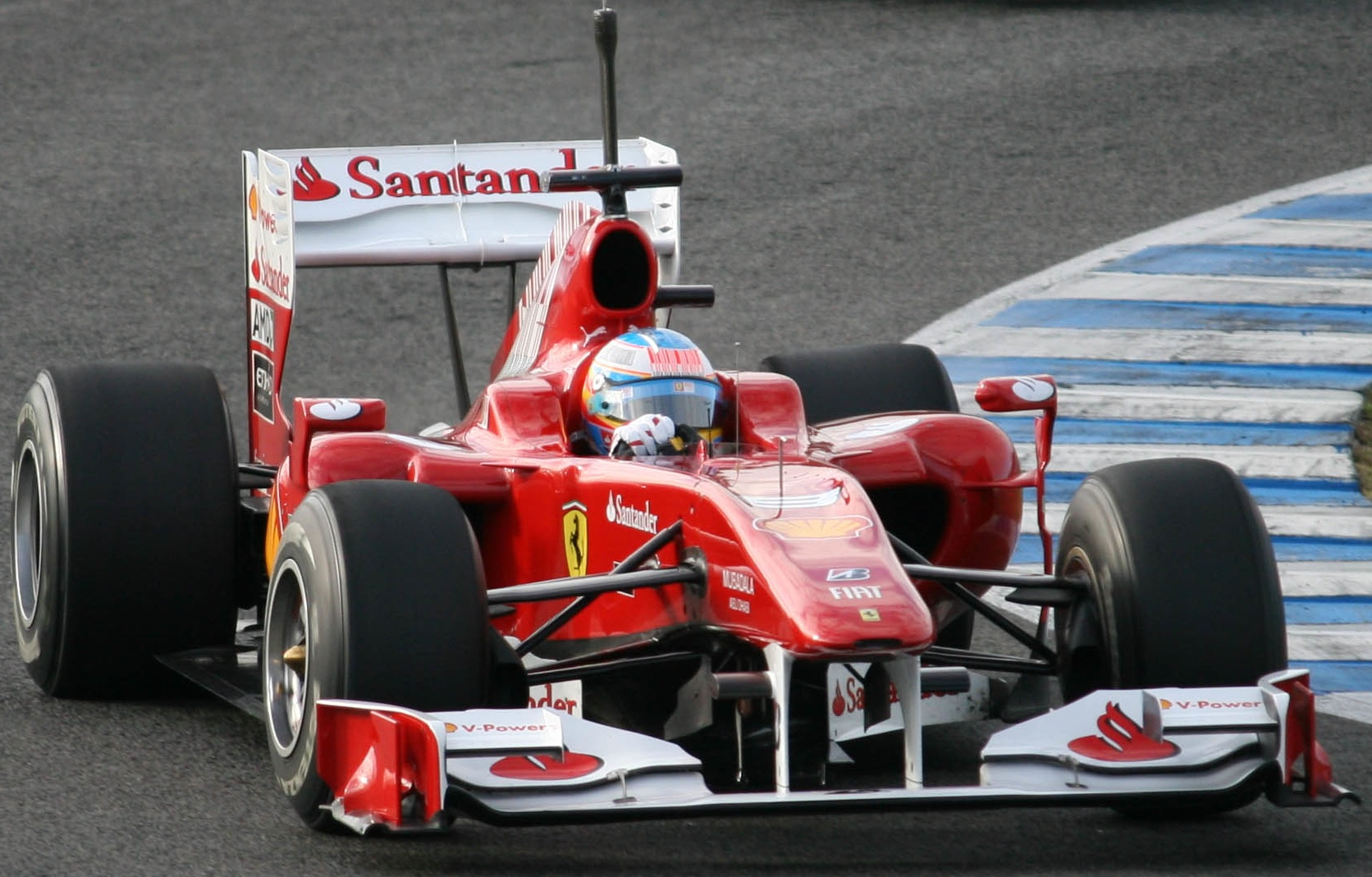 Cropped